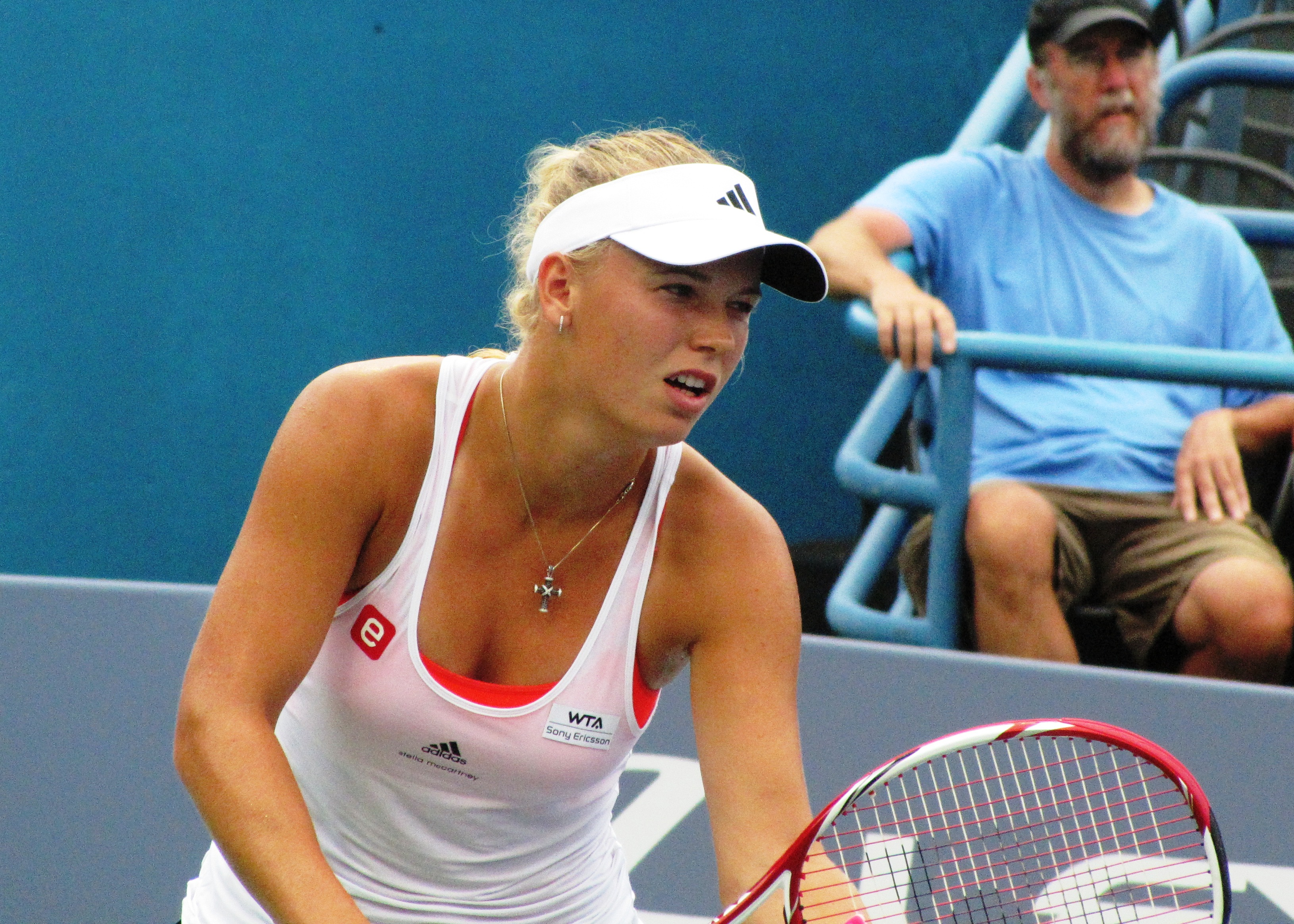 Caroline Wozniacki serving in the final so of the New Haven Open 27 August 2011